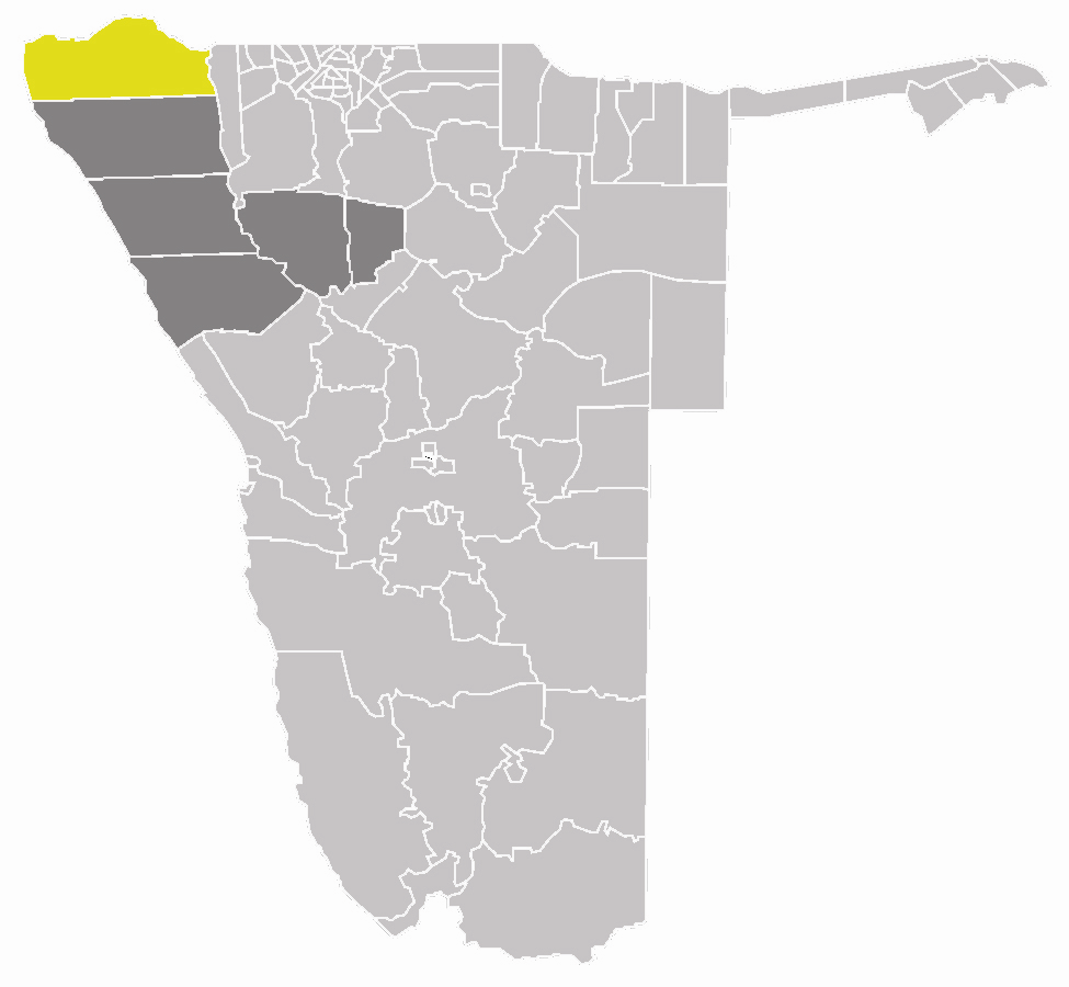 map of the Epupa constituency within the Kunene region, Namibia